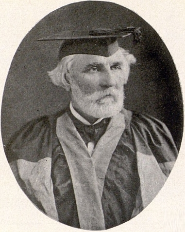 Photo of Ivan Turgenev wearing a gown and a cap of the University of Oxford. The photo is made by A.Liber in Paris (1879)